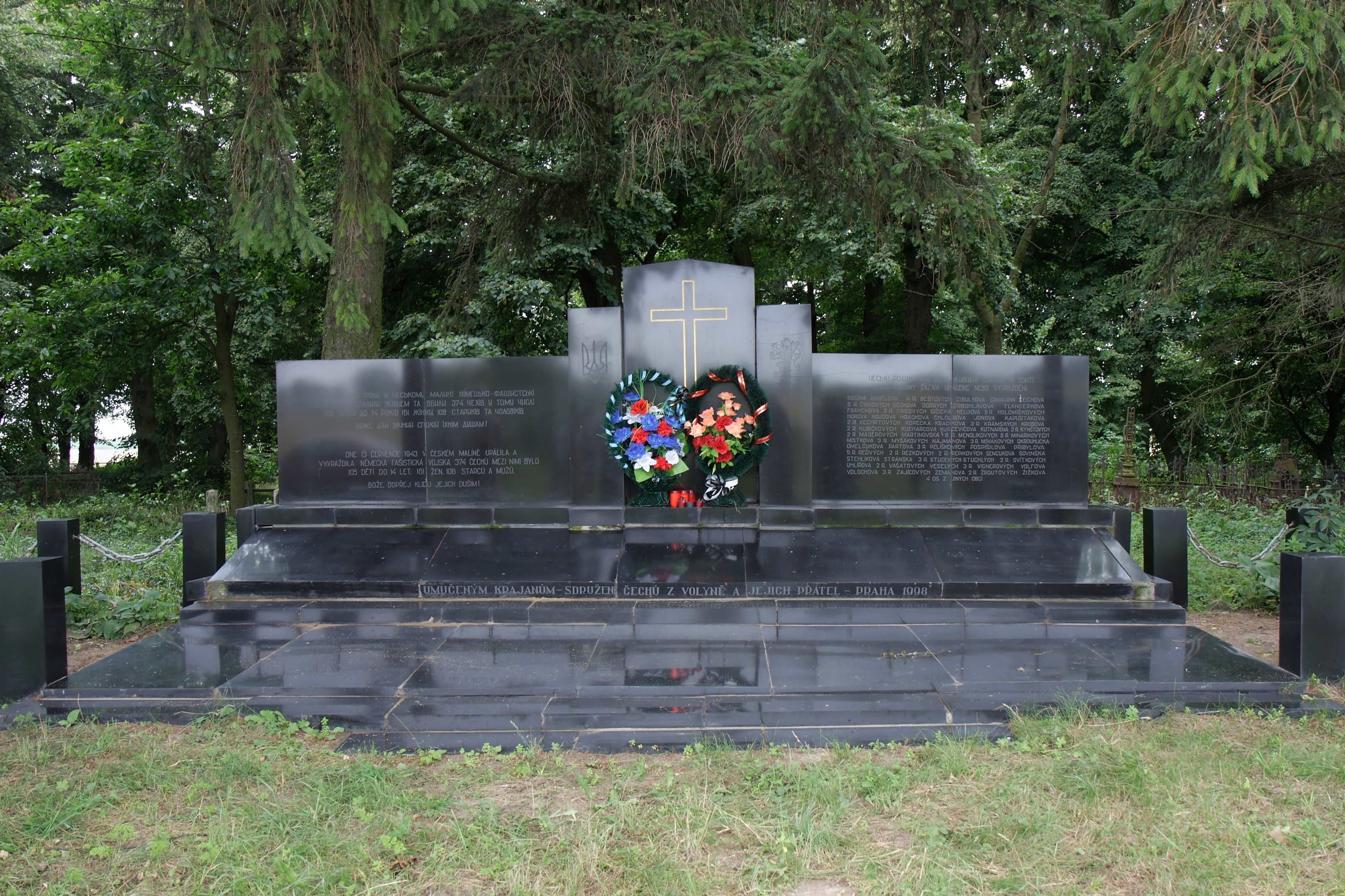 Memorial to Czech families from village Český Malín in Ukrainian Volynia, murdered by nazis in 1943.